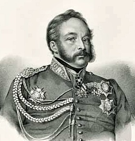 General Konstantin zu Löwenstein-Wertheim-Rosenberg (1786-1844)